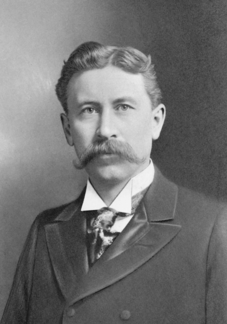 Charles B. Elliot was a Justice of the Minnesota Supreme Court